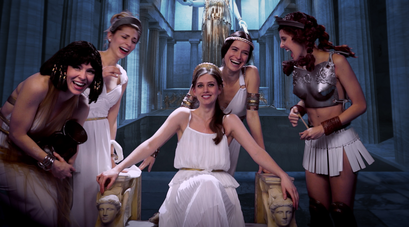 A production still from the feature film Lysistrata